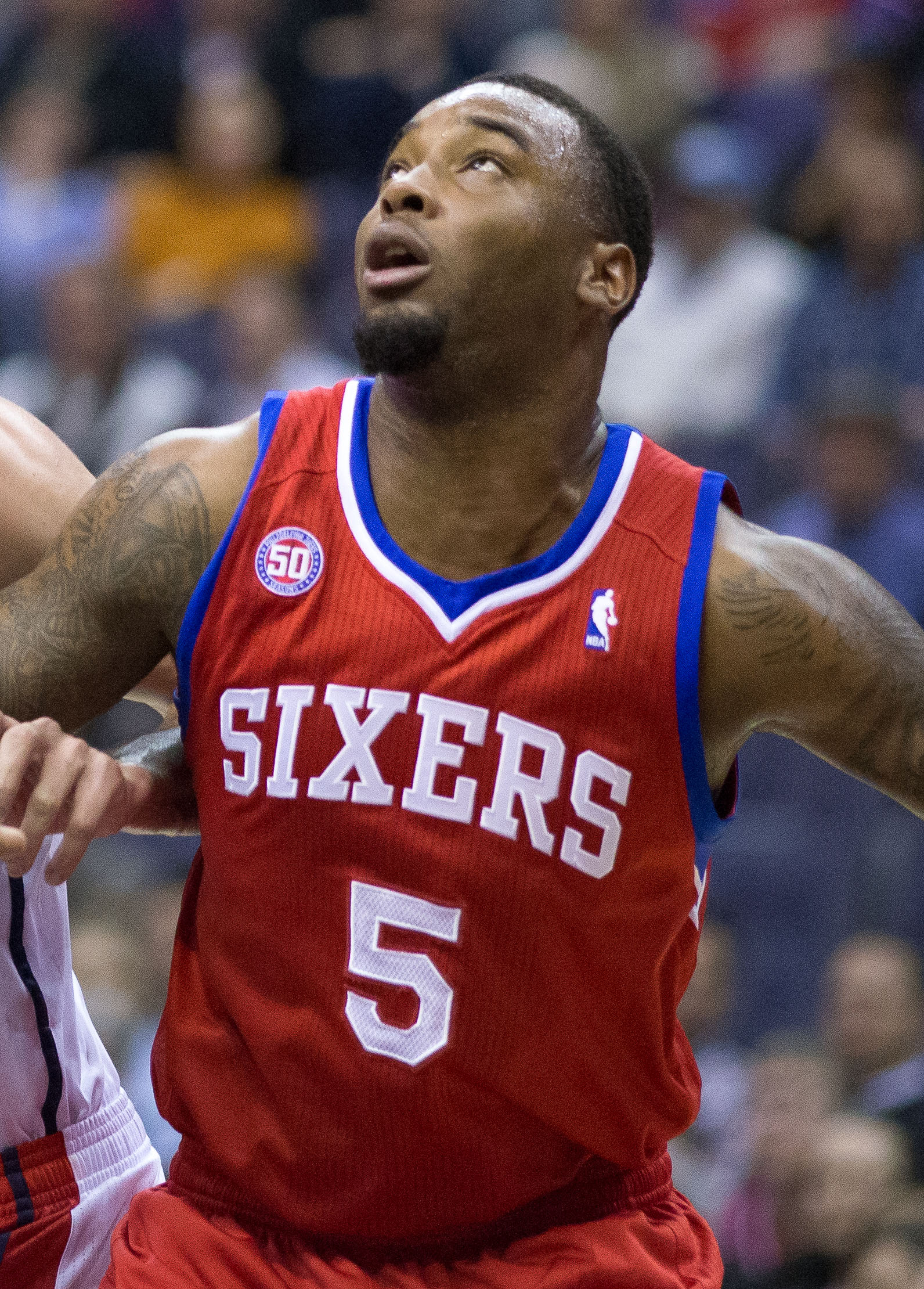 Arnett Moultrie, Philadelphia 76ers at Washington Wizards March 3, 2013